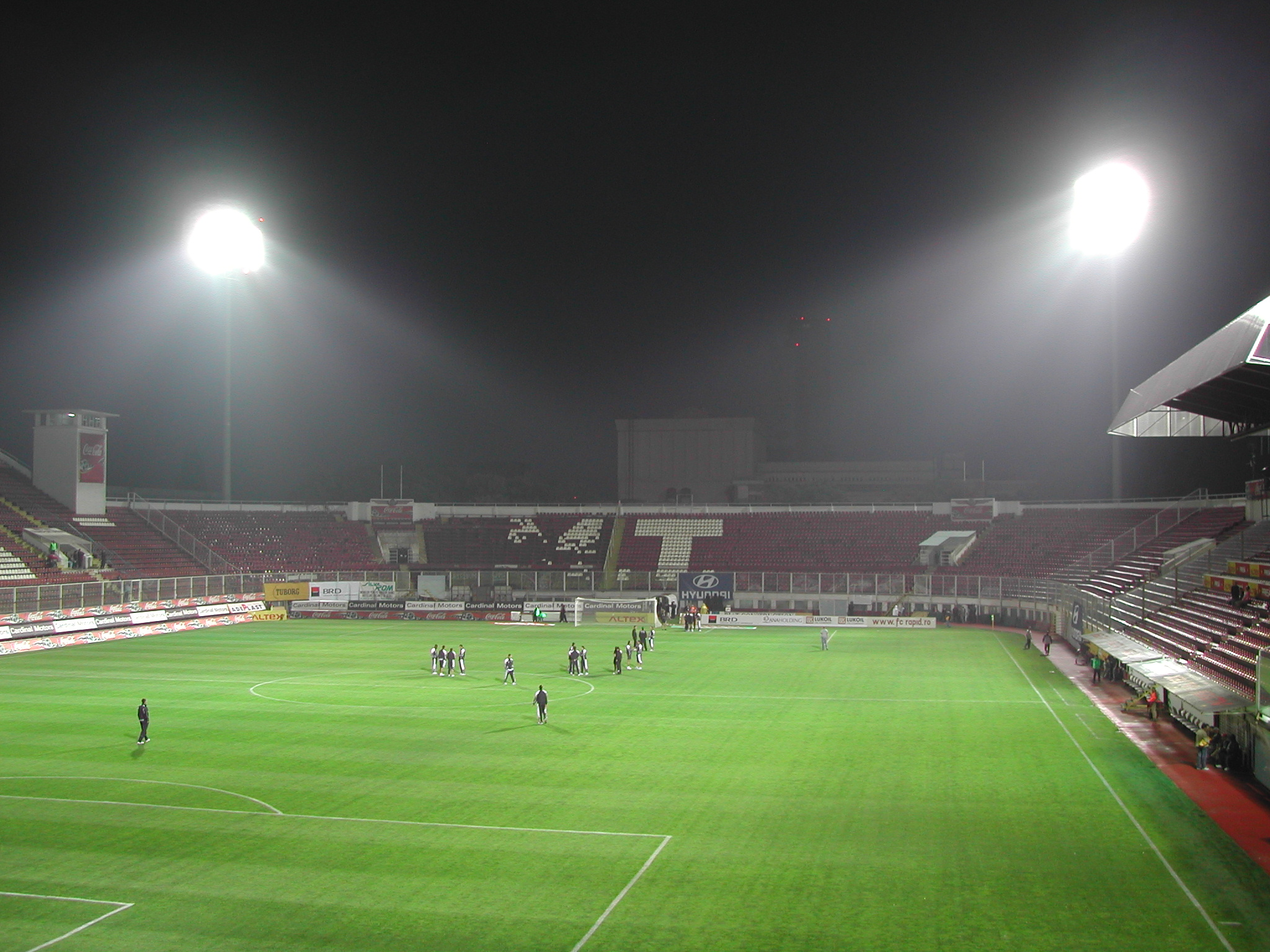 This picture shows the football ground Giuleşti-Valentin Stănescu. This ground is located in Bucharest, Romania and is the home ground of Rapid Bucureşti.